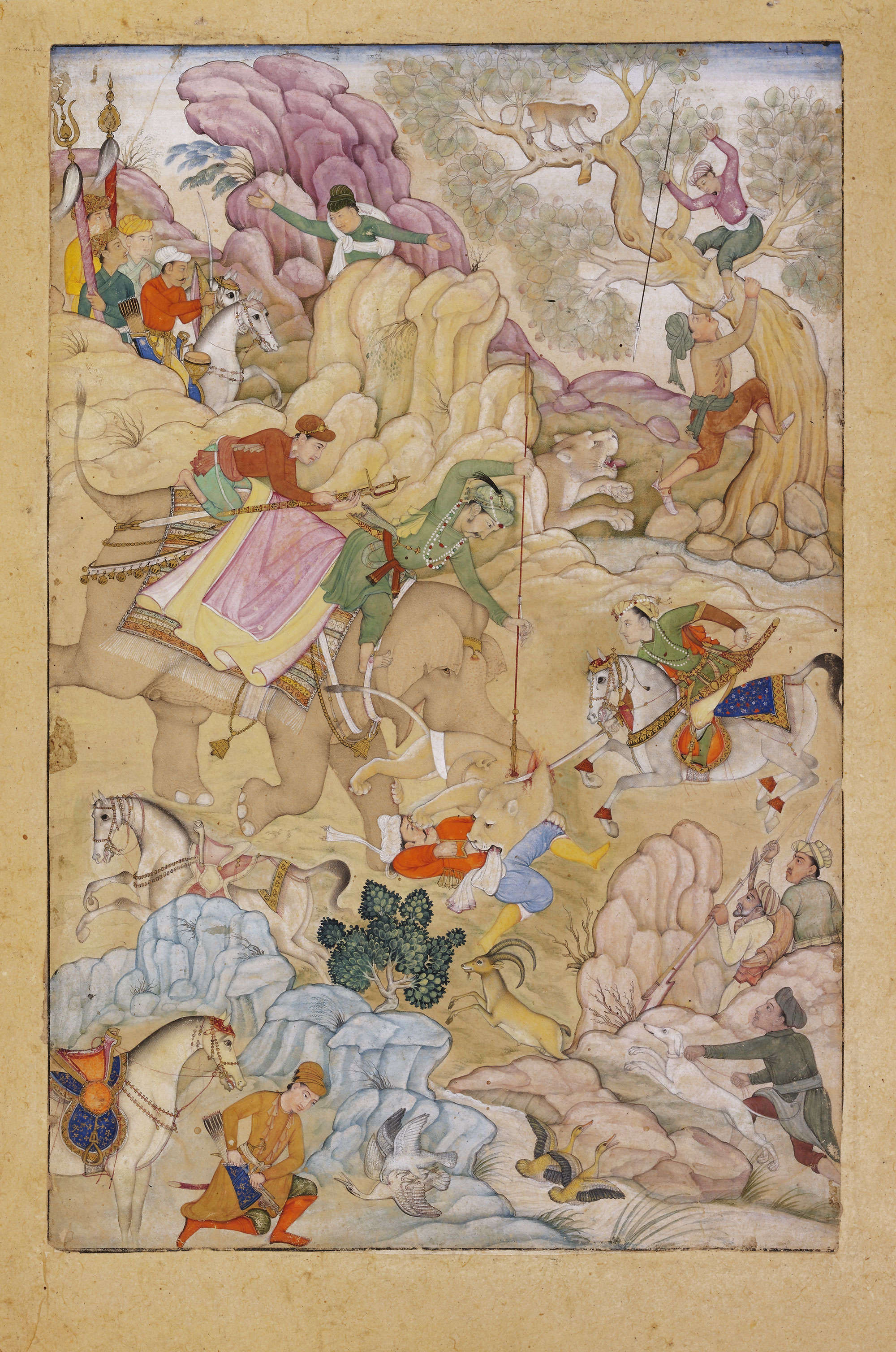 Jahangir on a lion hunt, c.1615; from the collection of the Aga Khan Museum (*more information*); click on the image for a large scan (downloaded Apr. 2011)